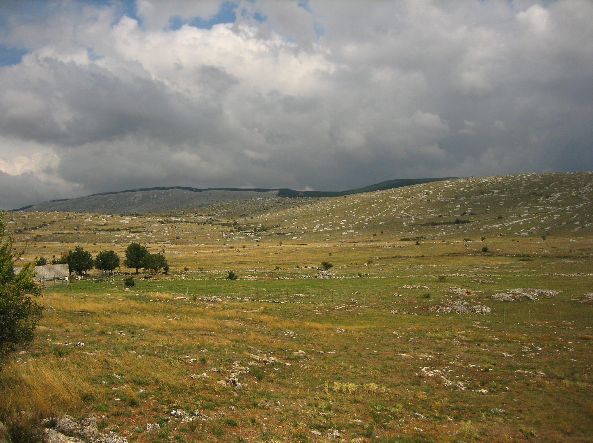 Causse Méjean, largest Karst plateau in the Massif Central, South France.